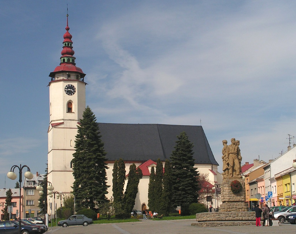 St. Nicolas church in Bílovec, Czech Republic.